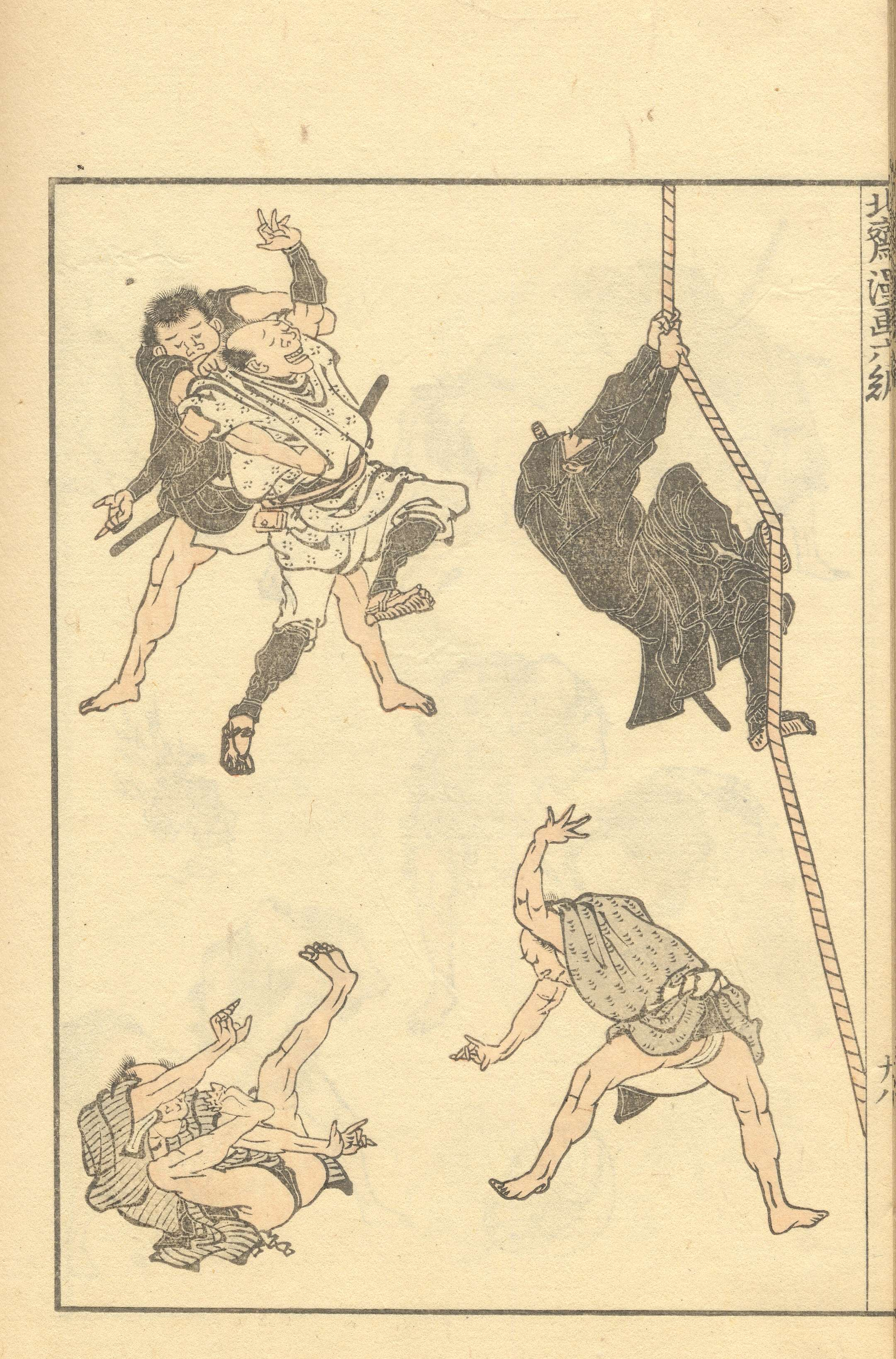 Page from volume 6 of the 15-volume Hokusai Manga (sketches collection)